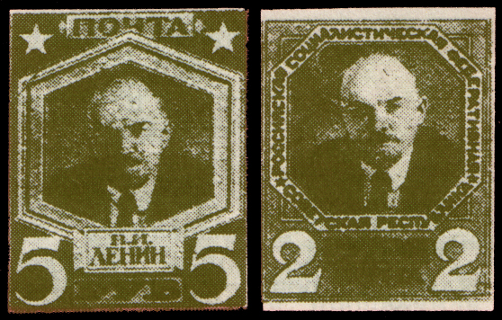 Essay RSFSR, Lenin, 1920